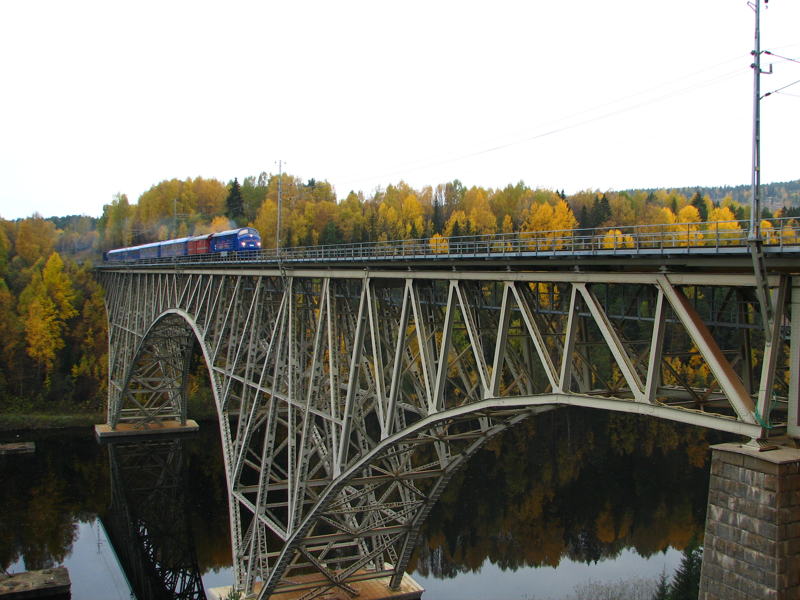 A GrandNordic train is passing over Ångerman River using the Forsmo bridge. This bridge is a part of the main railway line through upper Norrland in Sweden.